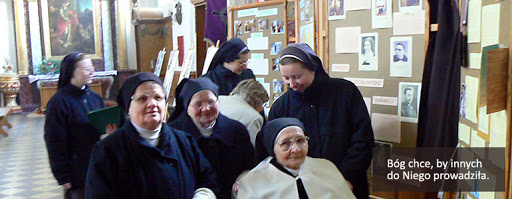 Sisters of our Lady from Mount Carmel